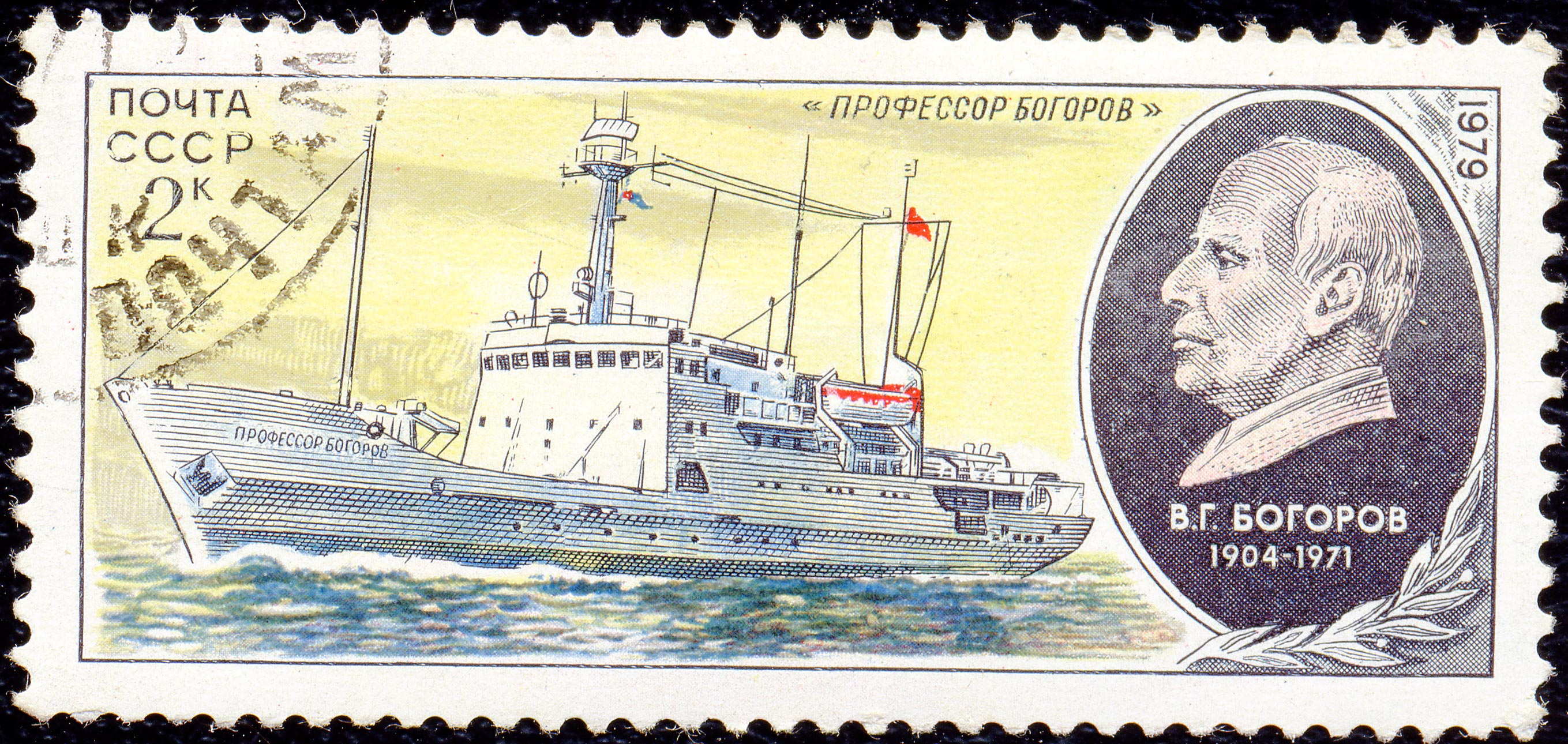 USSR postage stamp. 1979. Research vessel "Professor Bogorov" and portrait of V.G.Bogorov.